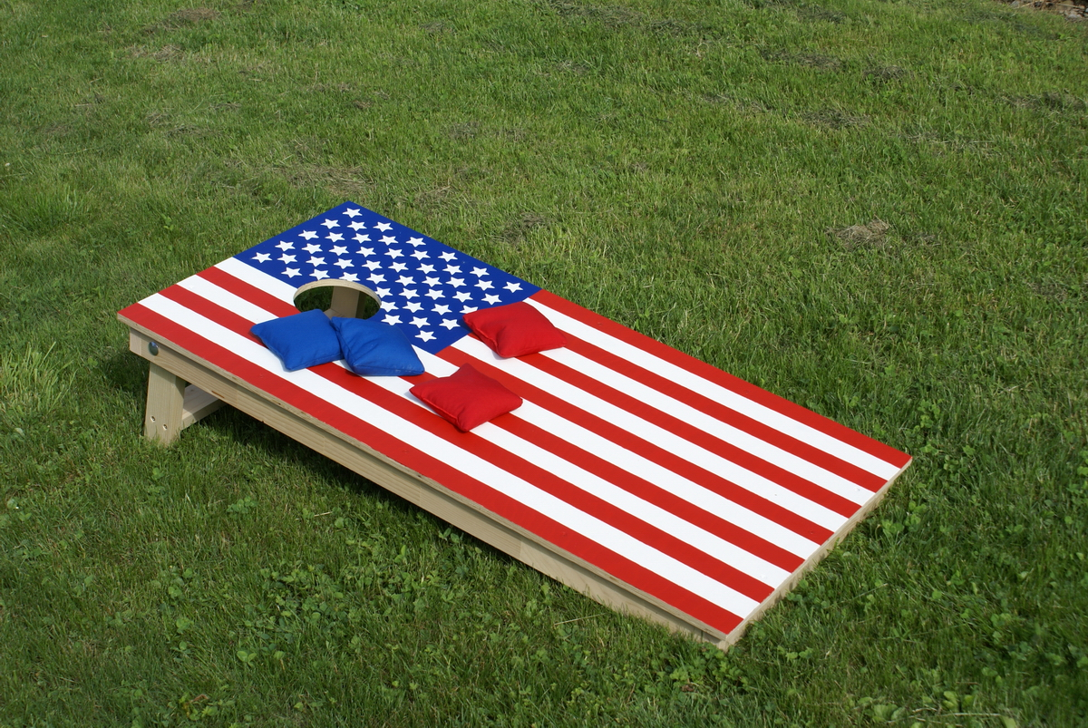 Cornhole Board USA. Made in Switzerland. Also known as the "Bean Bag" game.